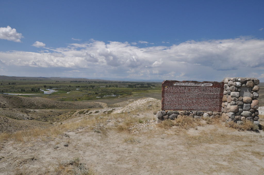 Upper Green River Rendezvous Site, Sublette County, Wyoming. Overlook of the site from a rise to its east.